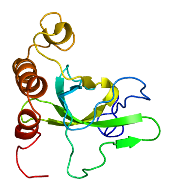 Structure of the MSH6 protein. Based on PyMOL rendering of PDB 2gfu.